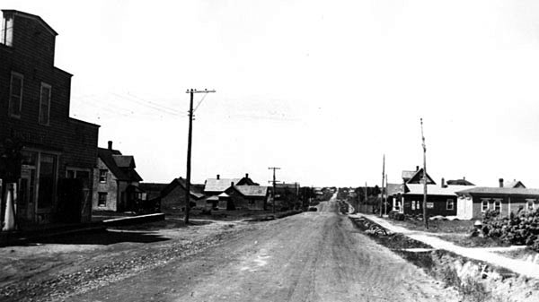 A street of Paquetville, circa 1915.